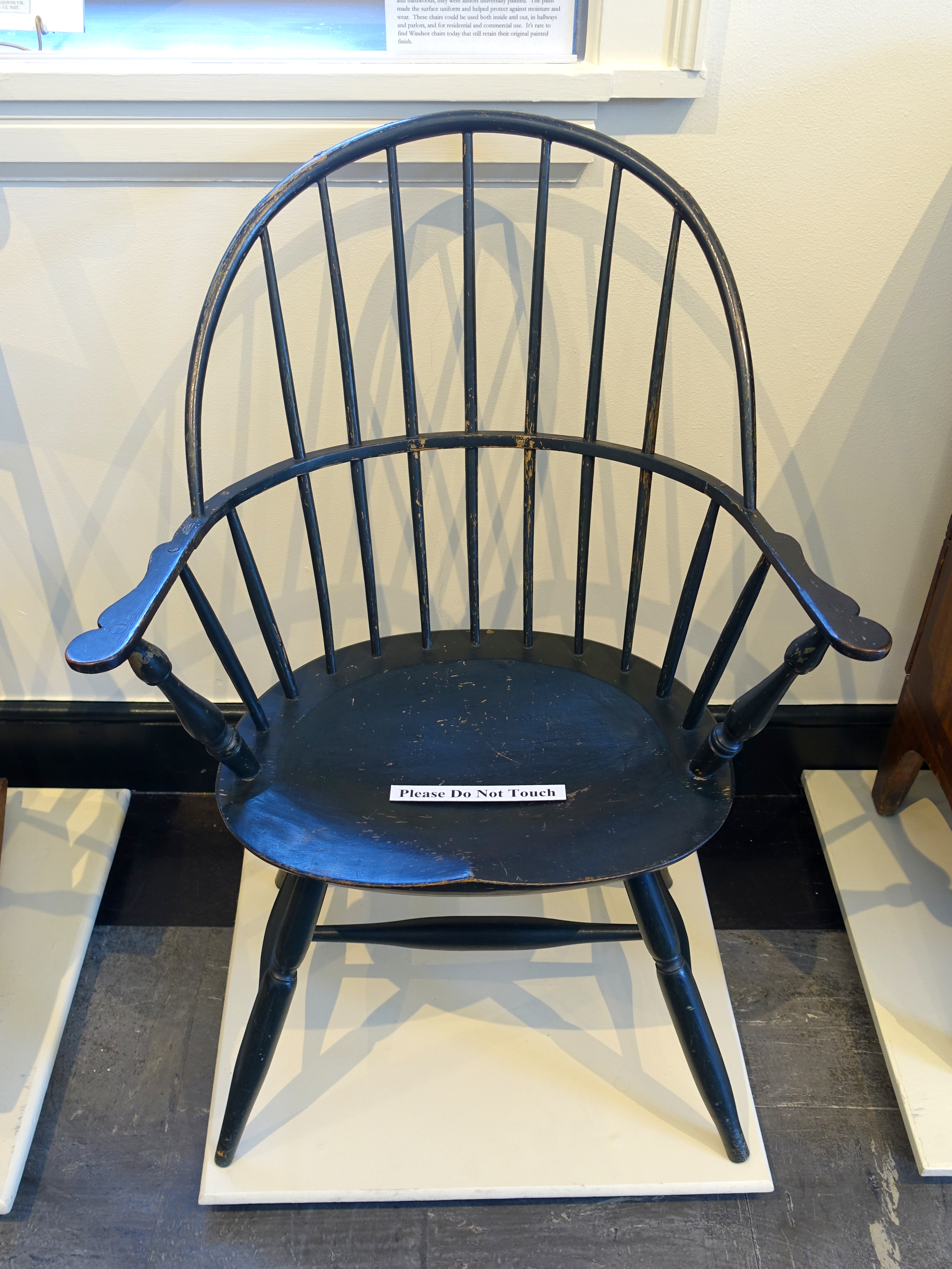 Exhibit in the Bennington Museum - Bennington, Vermont, USA. This work is in the public domain because the artist died more than 70 years ago.